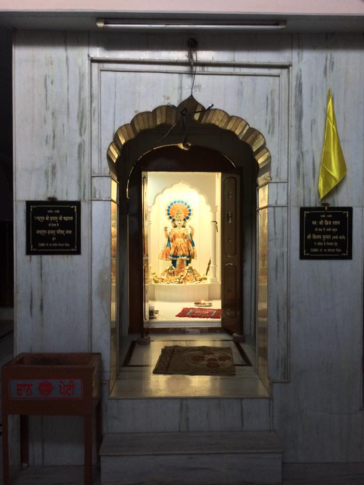 Satya Narayan Ji Temple outer look in july 2016